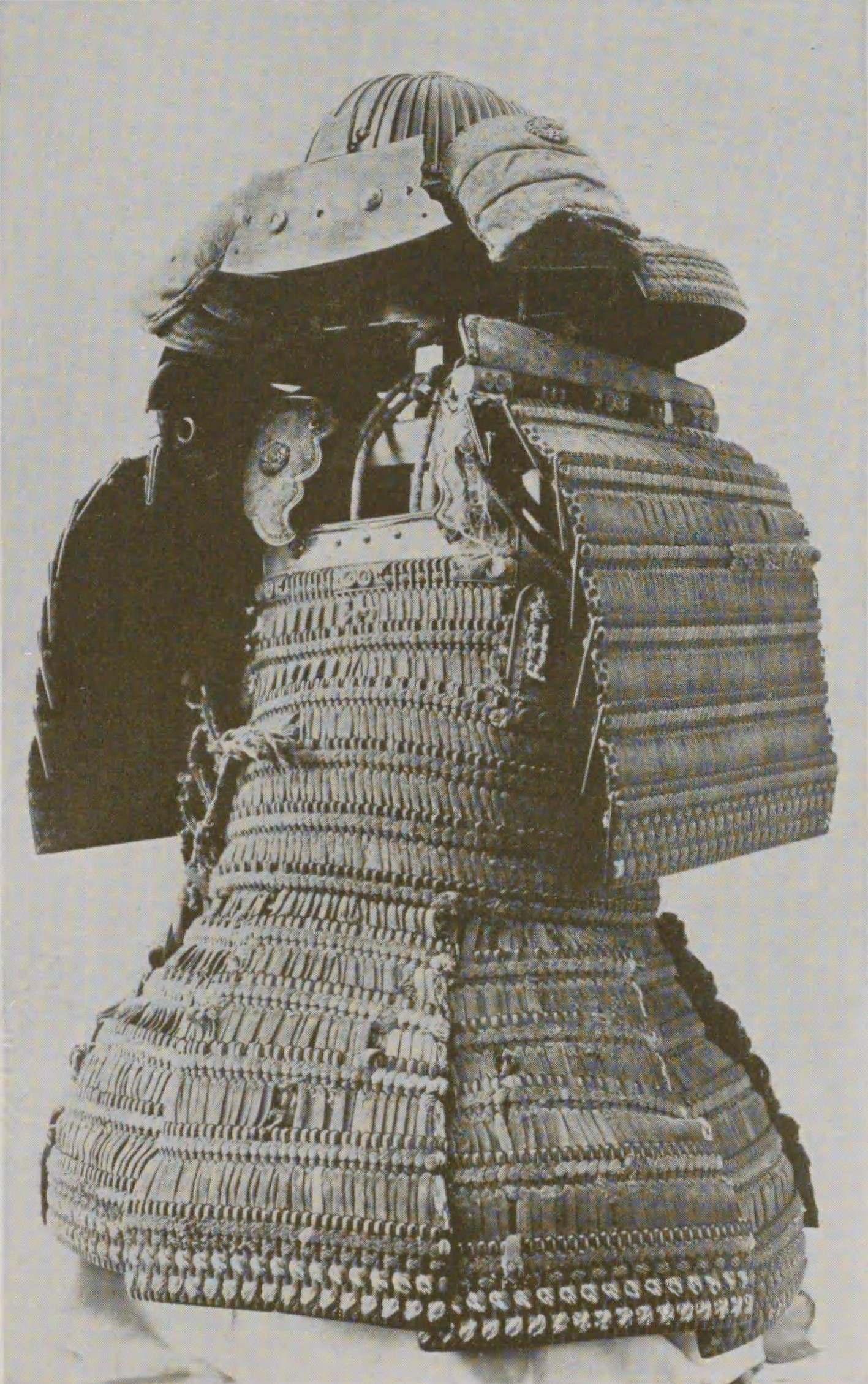 Kon'ito-odoshi Domaru which was belonged to Tono-Nanbu family, the collection of Hayashibara Museum of Art, Okayama, Okayama prefecture. A Important Cultural Property of Japan.